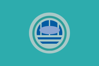 Variation of the Shanghai Cooperation Organisation's flag for use in infoboxes.